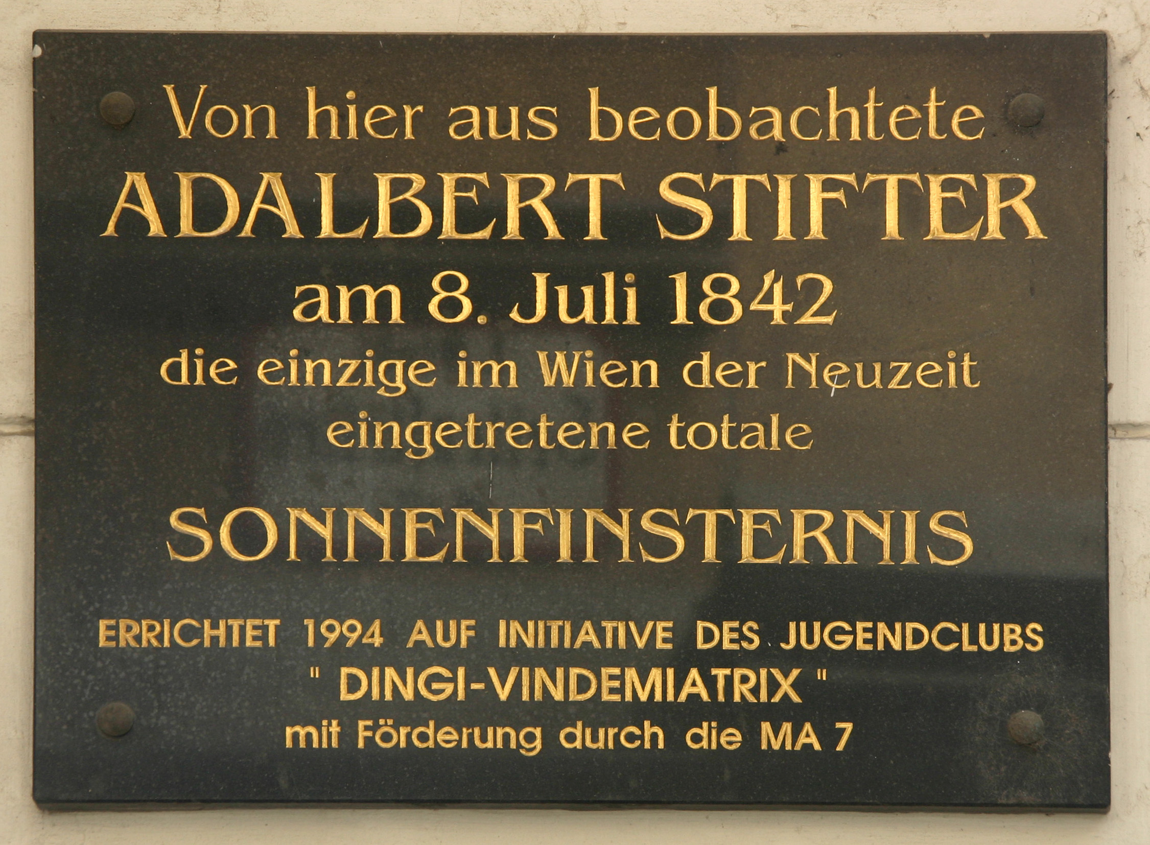 Plaque in Vienna